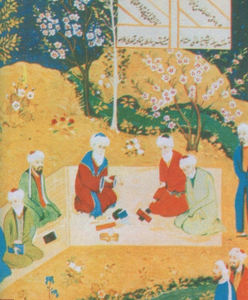 Nizami and thinkers. Miniature from the manuscript